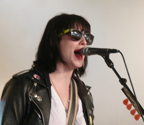 Brody Dalle live, 2009